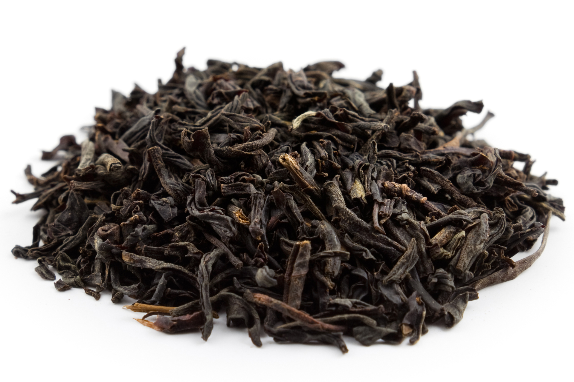 Earl Grey tea, with a flavour and aroma derived from the addition of oil extracted from the rind of the bergamot orange